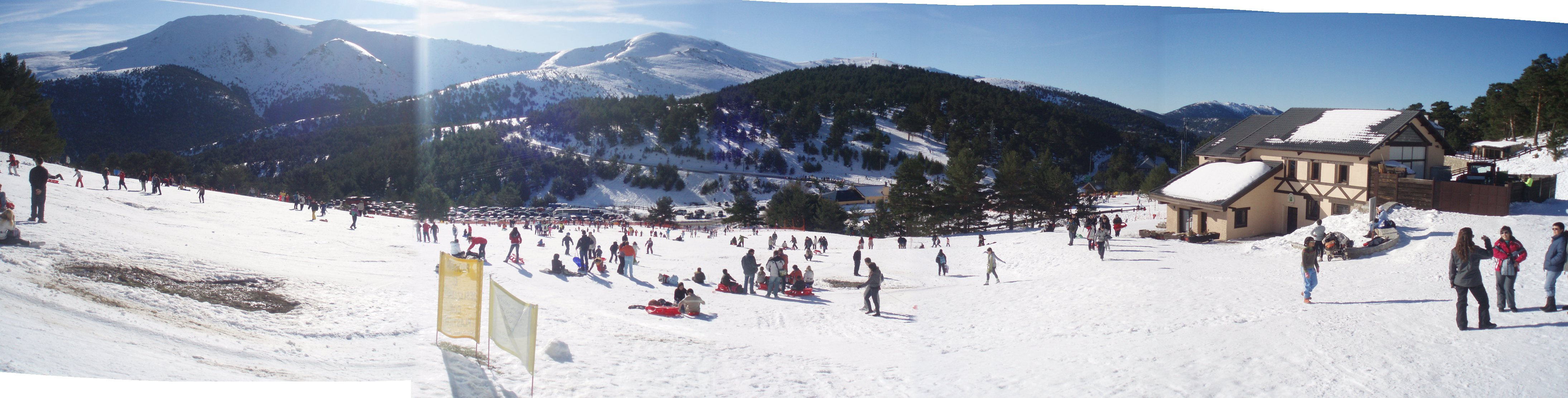 Cotos mountain pass in Winter (Guadarrama mountain range, Central Spain).